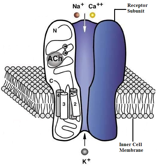 Modified from the ukranian wikipedia file N-ACh receptor-scheme.jpg (